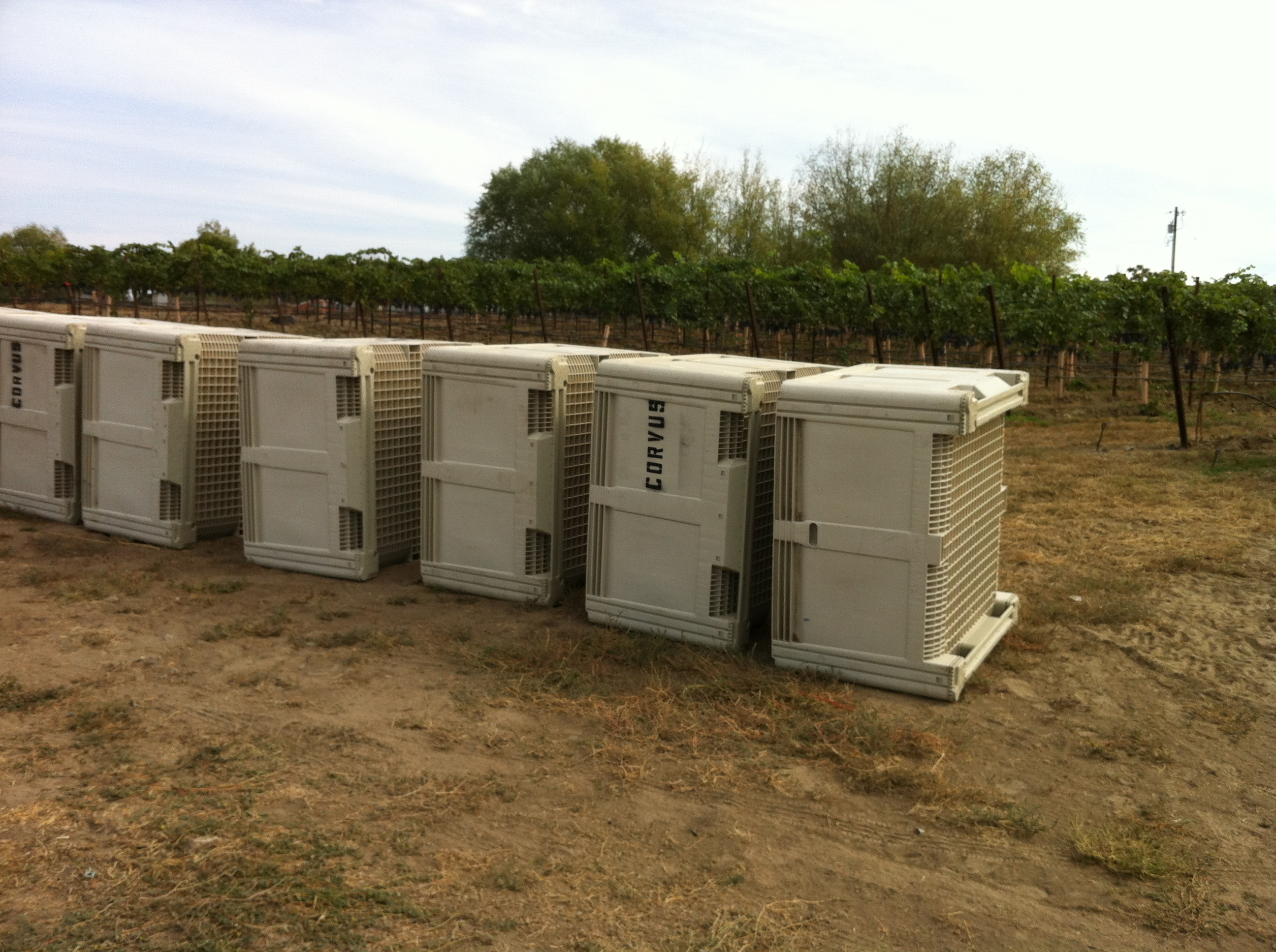 Empty harvest bins sitting in the vineyard